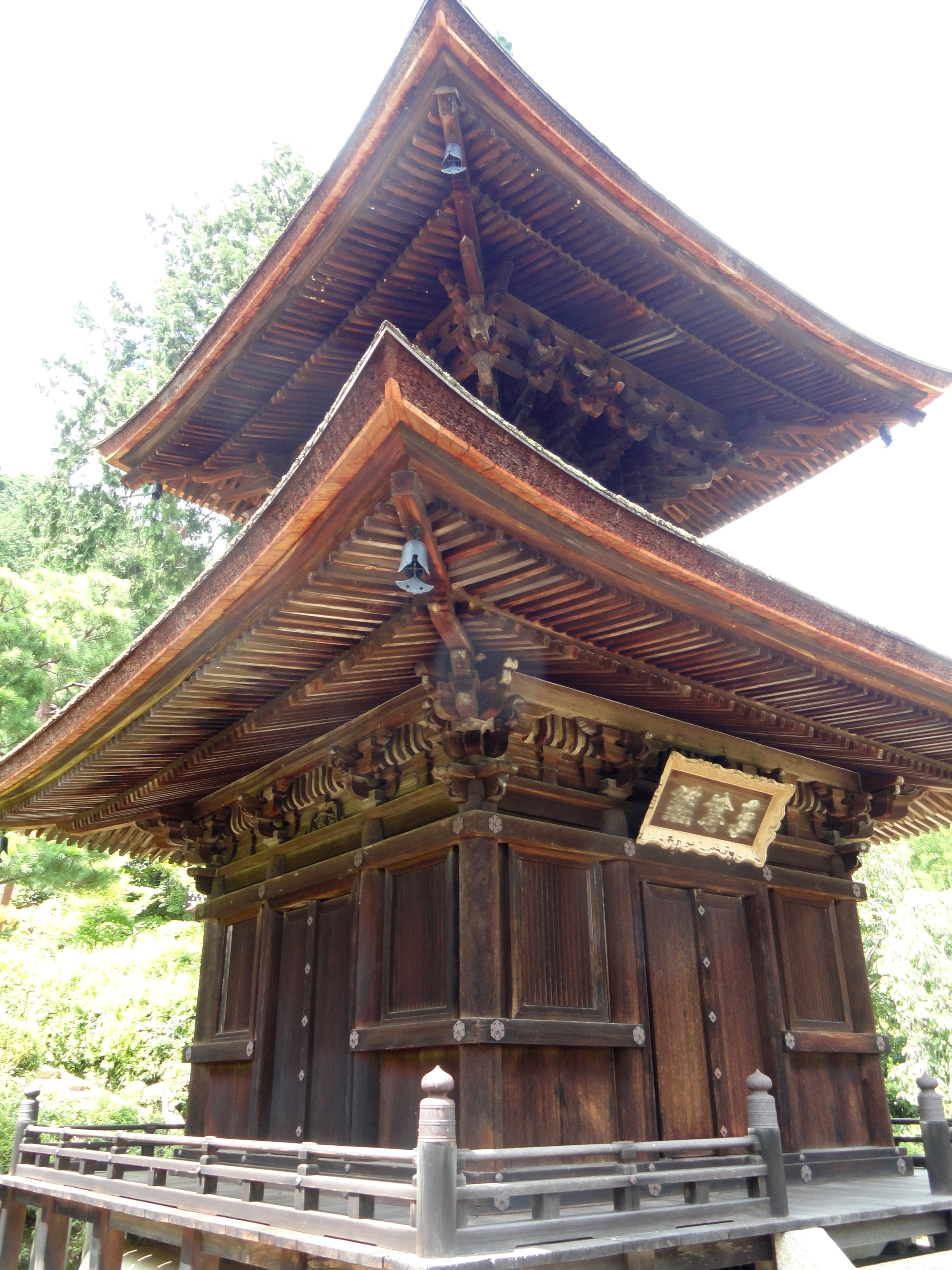 Jojakkoji, Kyoto, Japan.